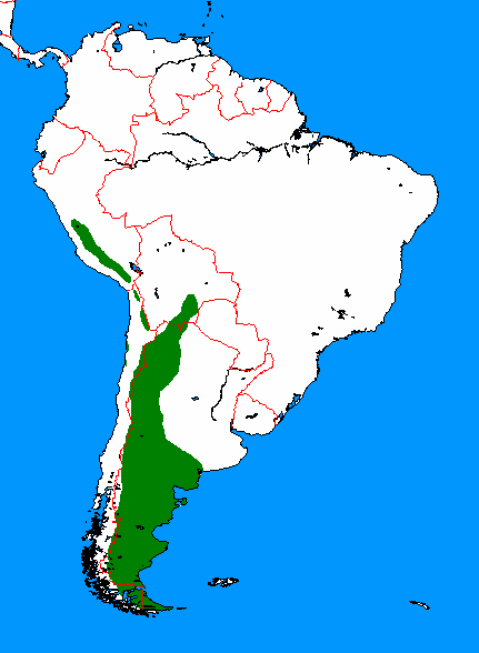 Range map for Guanaco (Lama guanicoe), made by me with help of Map depending on the range map at IUCN red list.